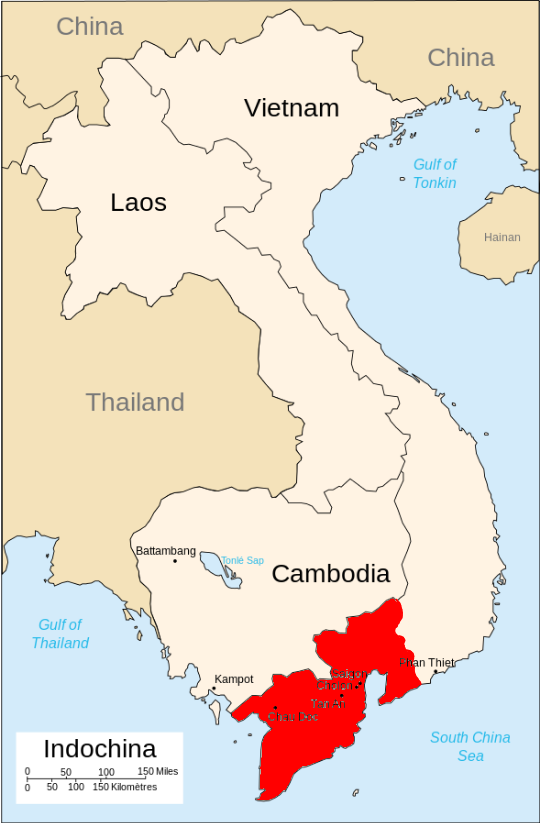 Kampuchea Krom location on map in current day Vietnam.